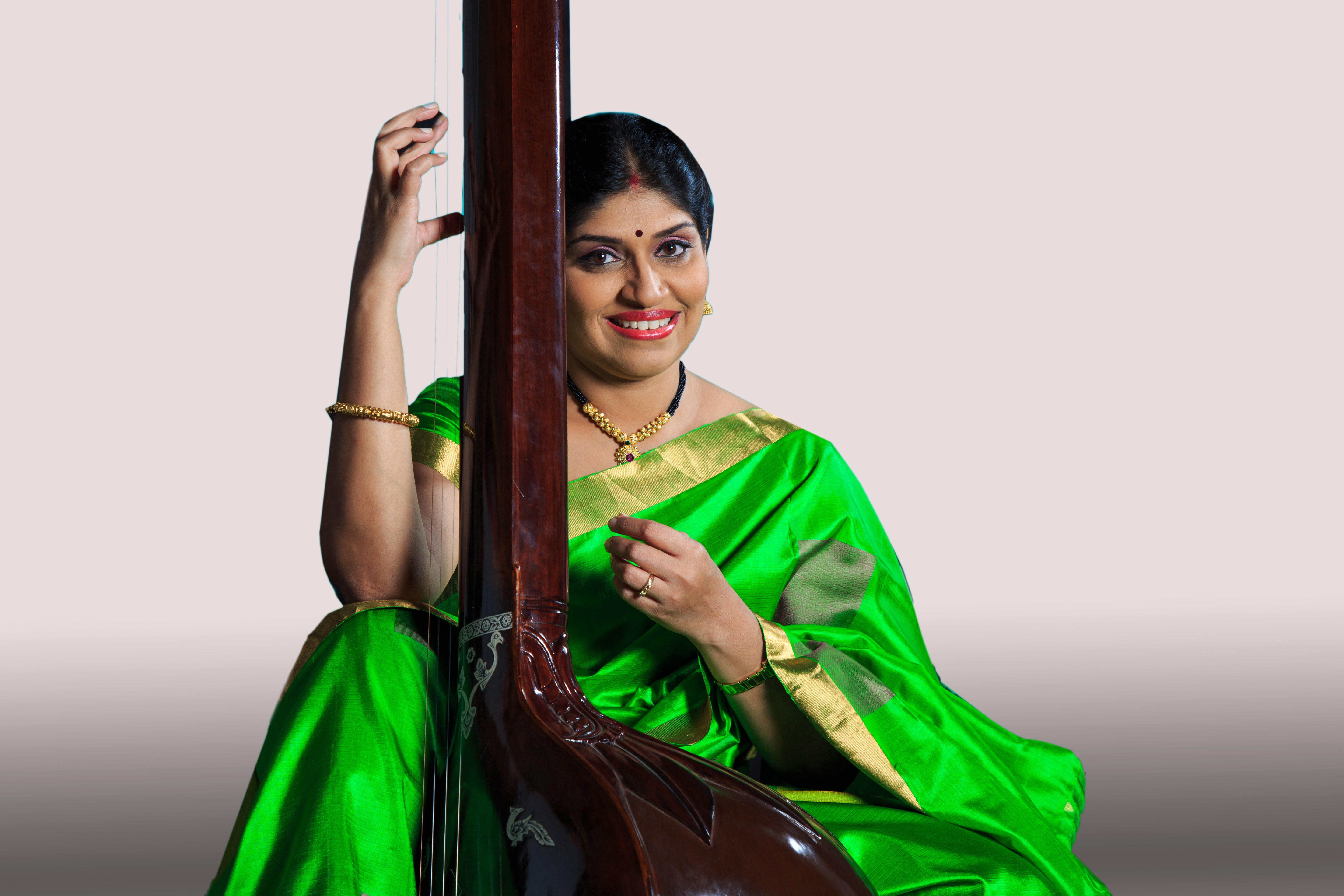 Gauri Pathare - Indian Classical Singer